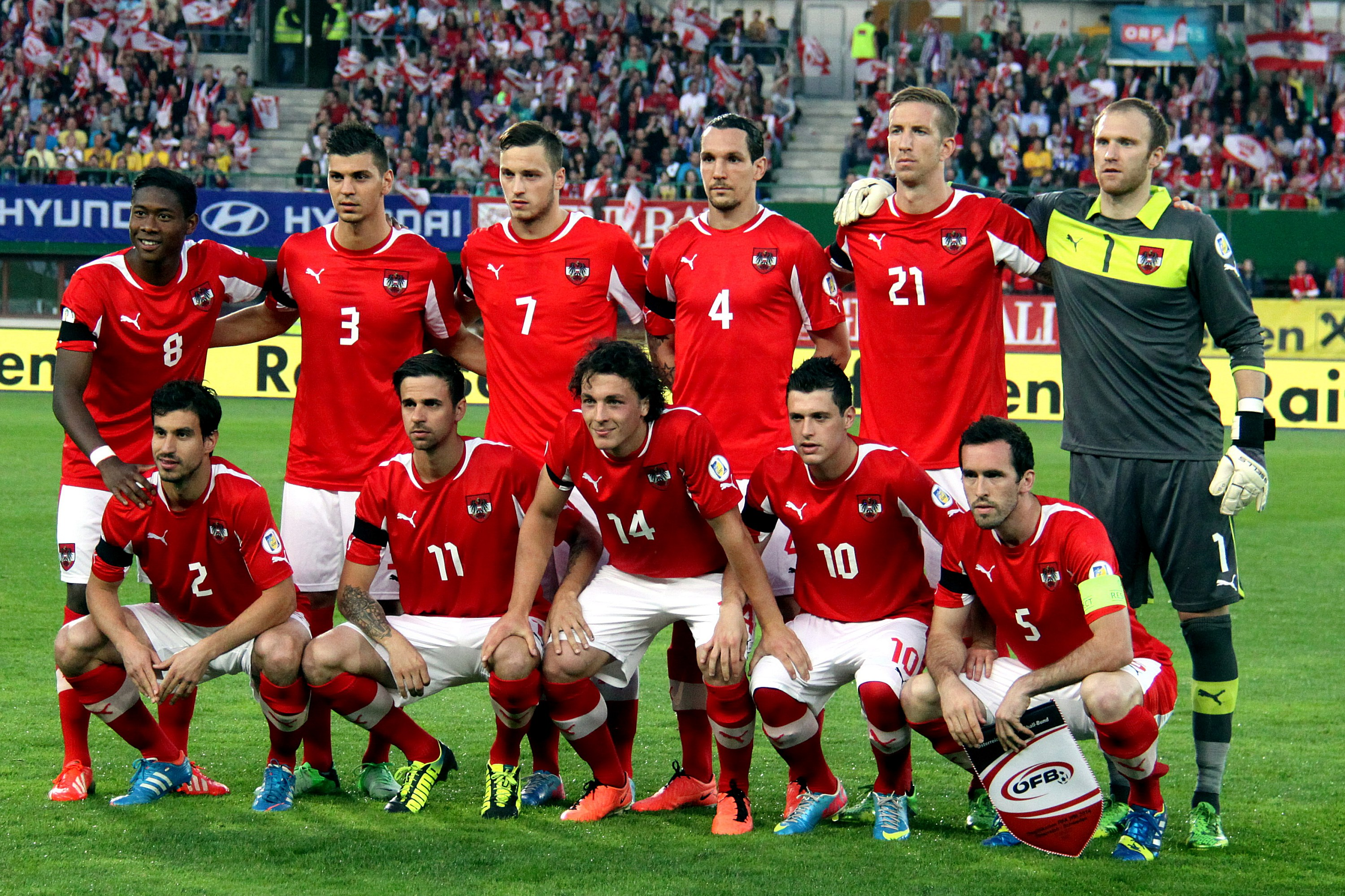 Austria vs Sweden at 2013-06-07 in Ernst-Happel-Stadion in Vienna (2:1). – The photo shows the Austrian national football team.